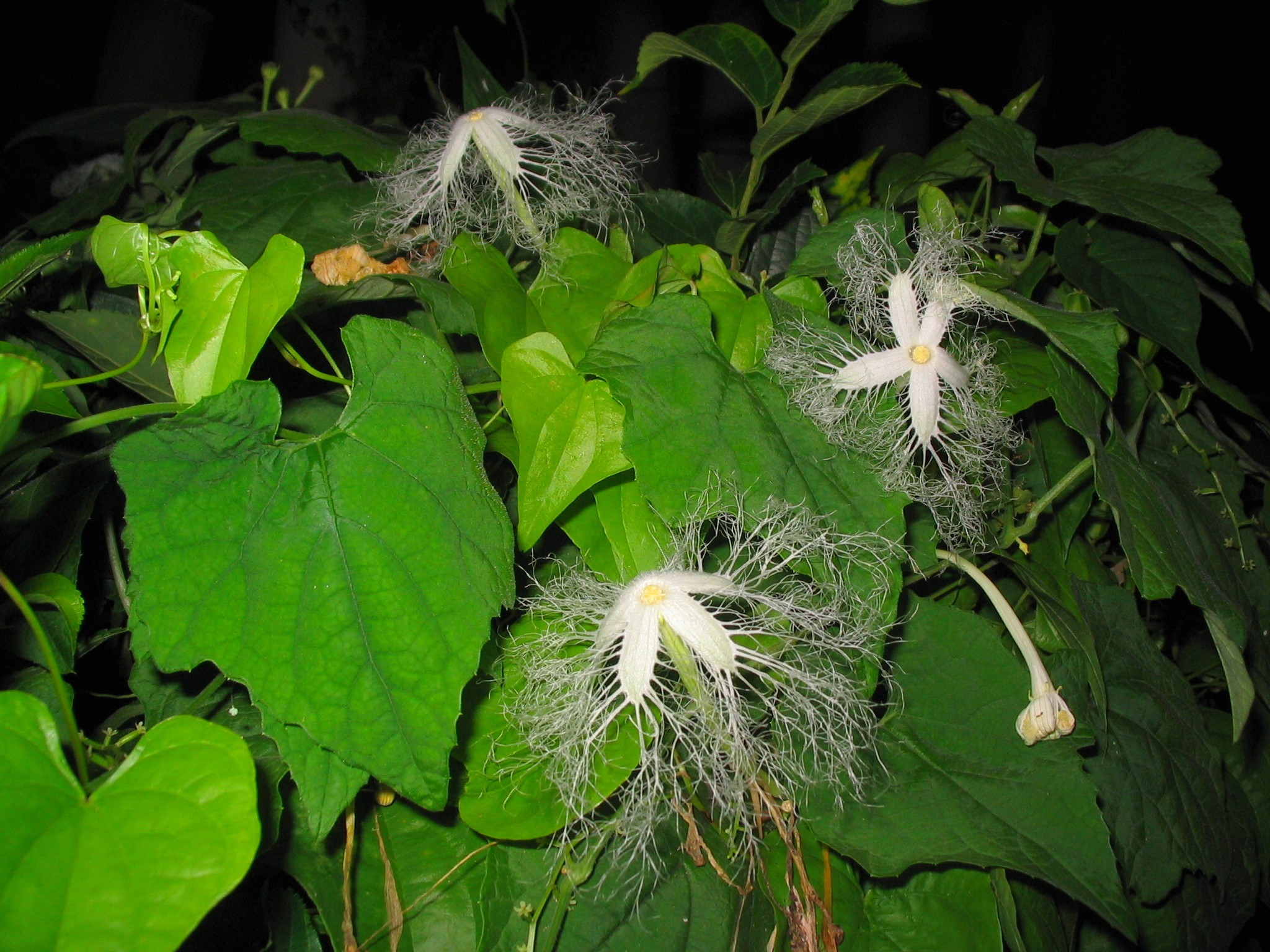 snake gourd